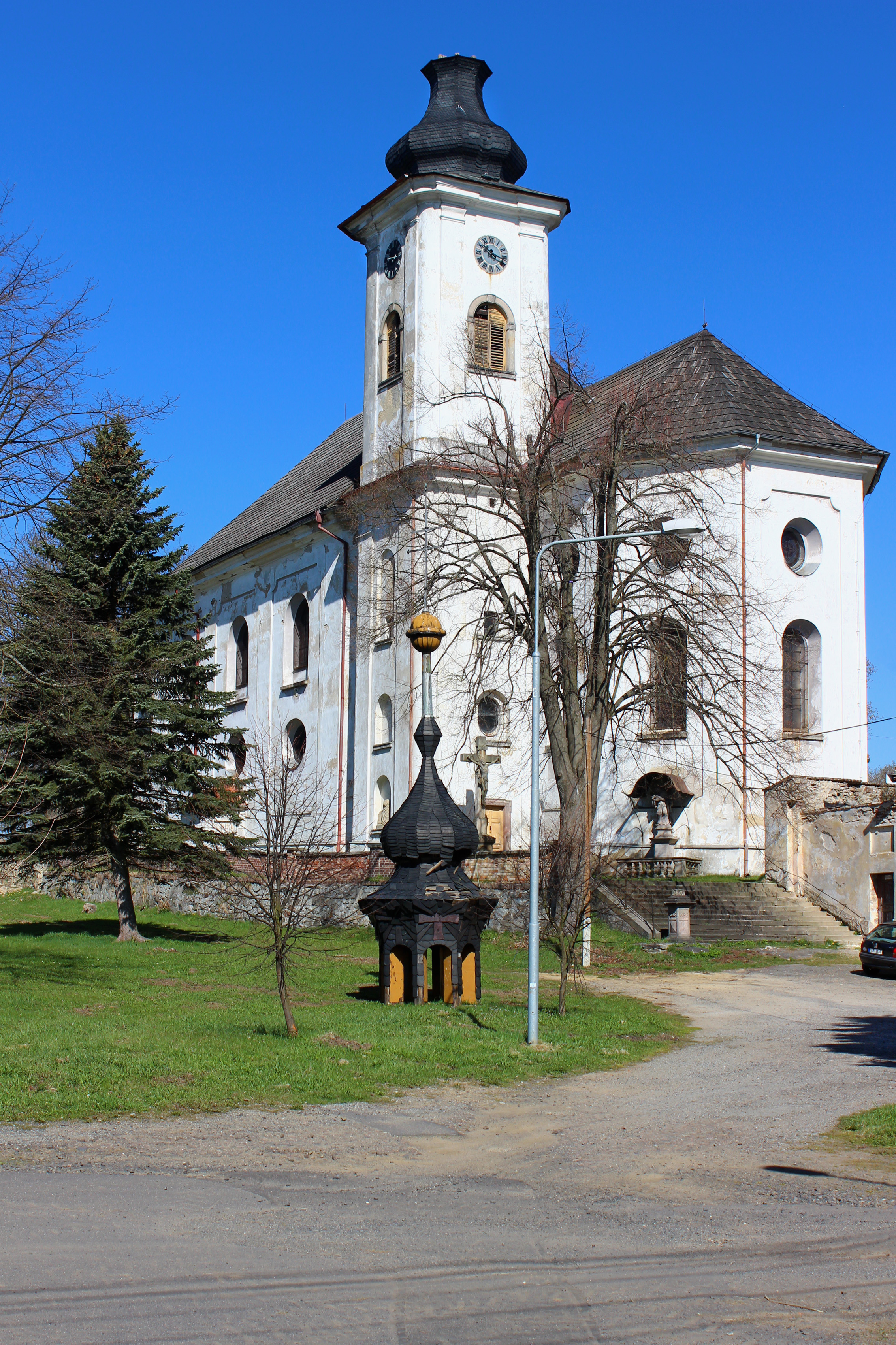 St. Peter and St. Paul's Church in Mnichov, Czech Republic